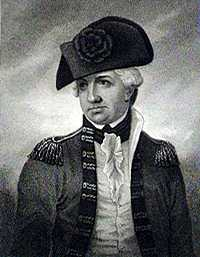 William Medows (December 31, 1738 – November 14, 1813), was an English general.